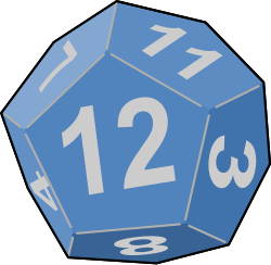 12 sided dice